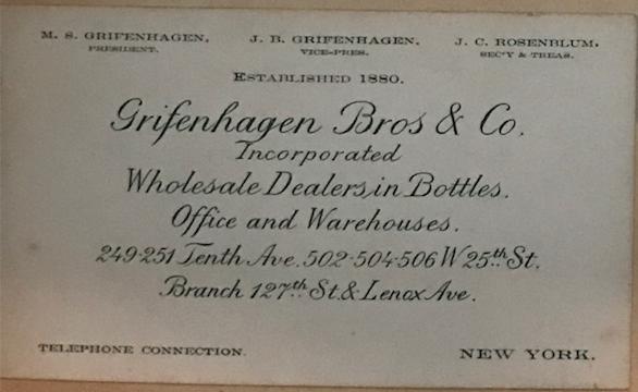 Business card of Grifenhagen Bros & Co. Inc., President and founder Max Samuel Grifenhagen